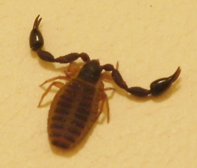 A pseudoscorpion in Upper Hutt, New Zealand. Possibly in the Chernetidae family, and possibly the Apatochernes genus.